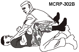 Line drawing of open guard position, figure 7-1 from USMC MCRP 3-02B Close Combat, 1999..